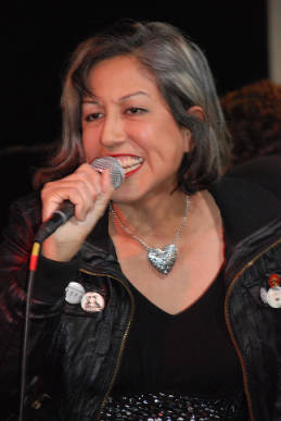 Alice Bag and the Januariez, No. 6, Women Who Rock 2012 Conference, Washington Hall, March 2-3 2012. Photographed by Macklin, Angelica .